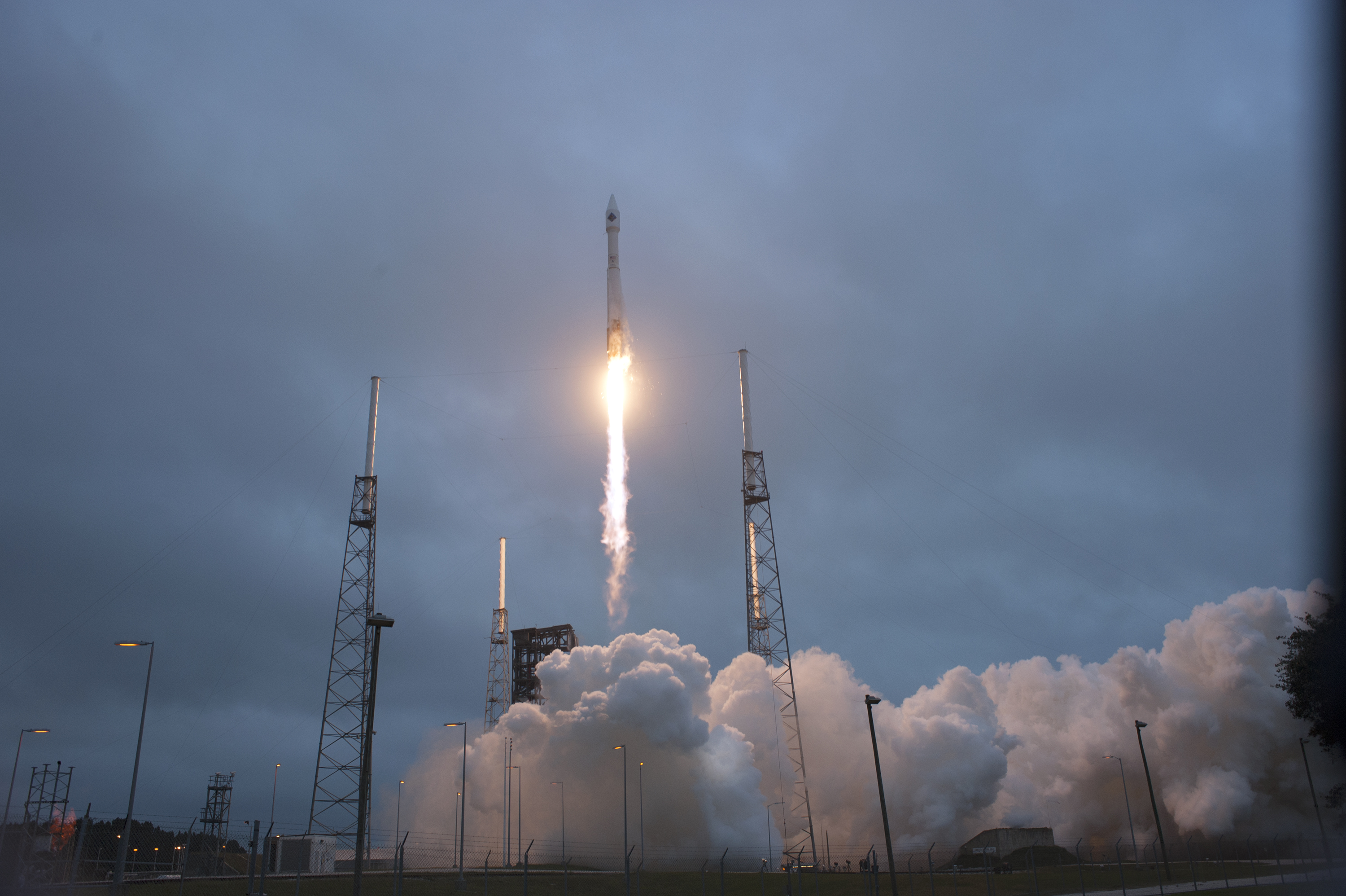 A United Launch Alliance Atlas V rocket lifts off from Space Launch Complex 41 at Cape Canaveral Air Force Station for the Orbital ATK CRS-4 commercial resupply services mission to the International Space Station. Liftoff was at 4:44 p.m. EST. The Cygnus resupply spacecraft will deliver more than 7,700 pounds of essential crew supplies, equipment and scientific experiments to the station.